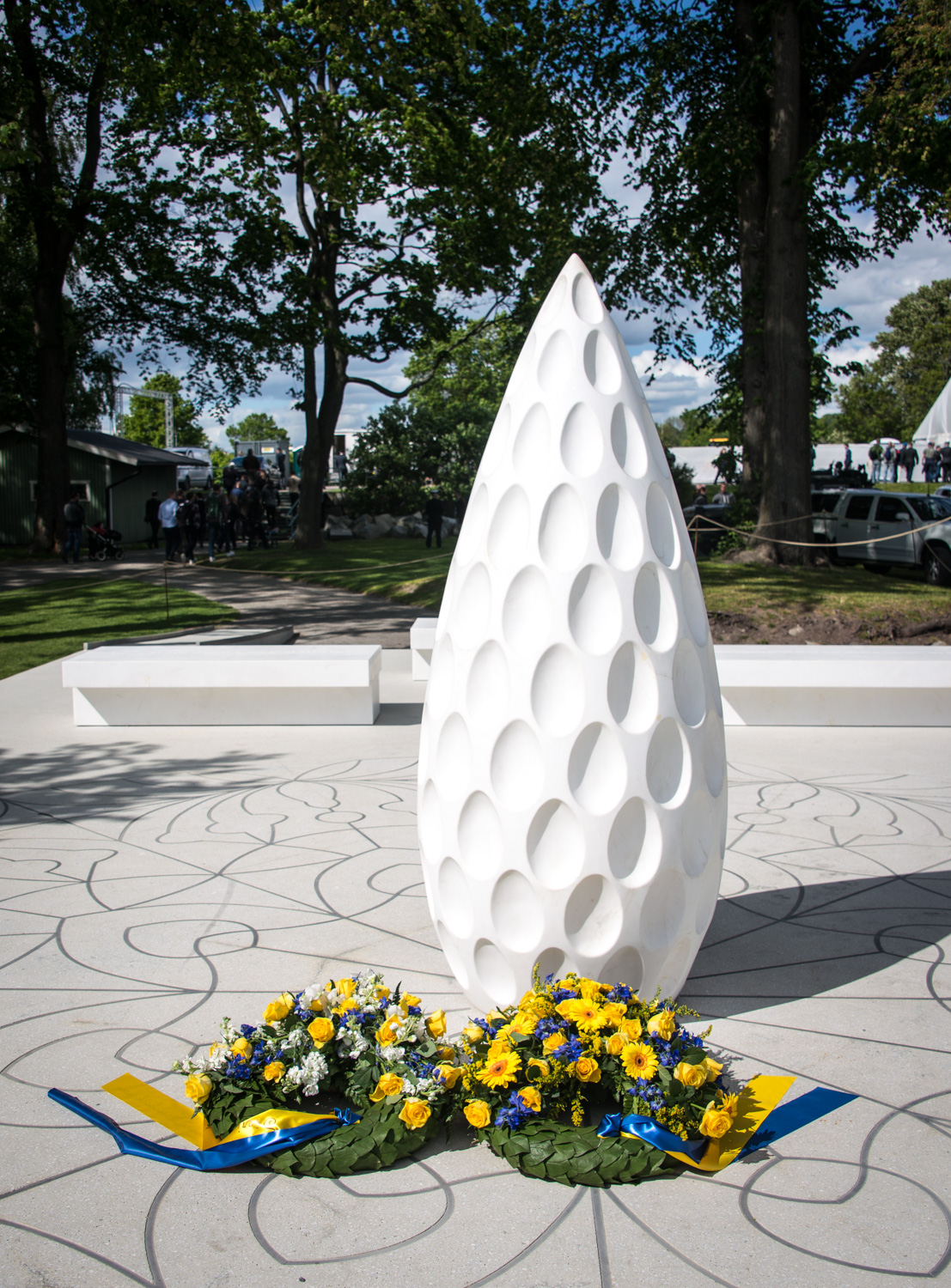 Veterans Day in Stockholm, May 29, 2015.